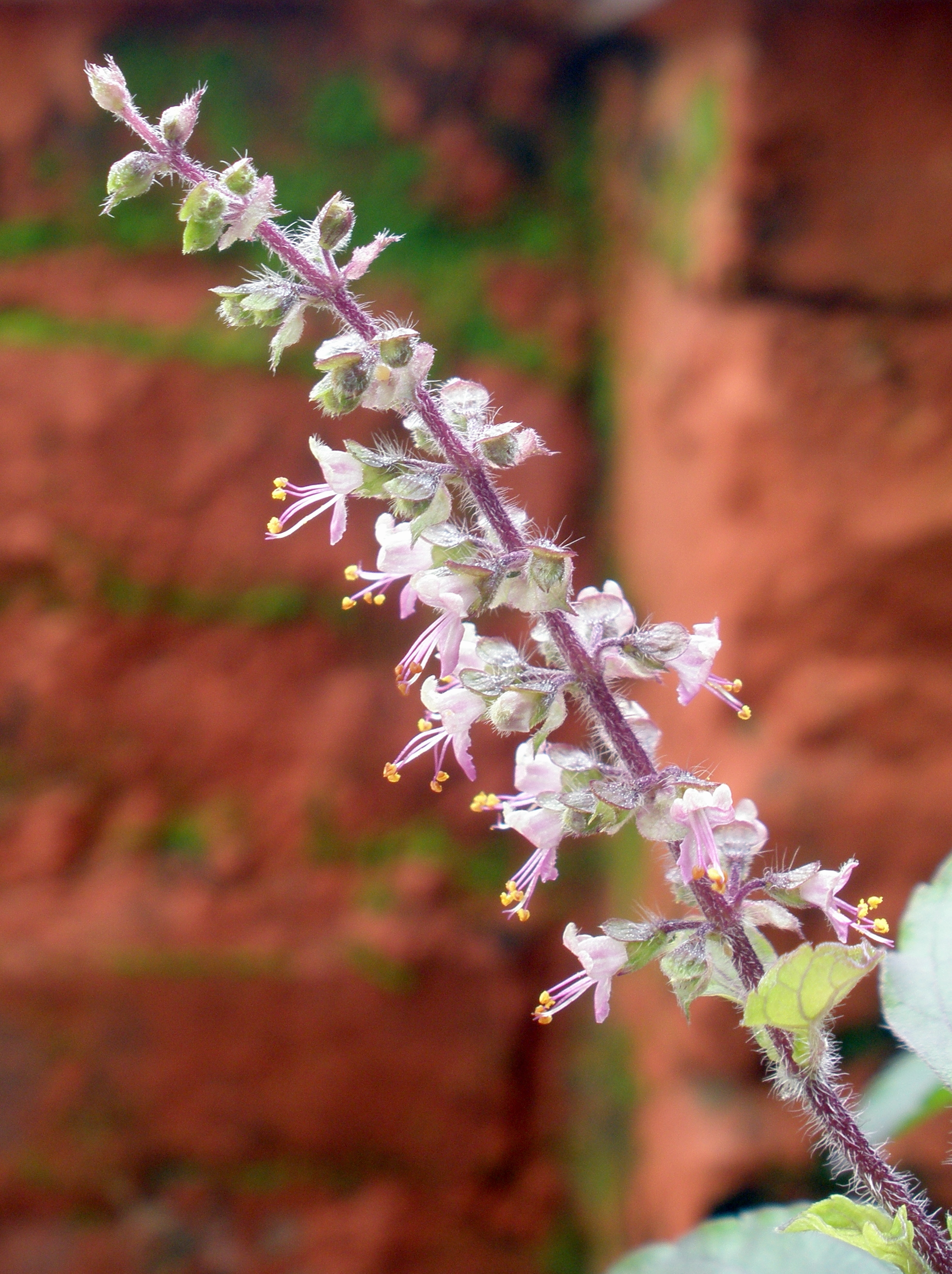 Flower of Ocimum tenuiflorum